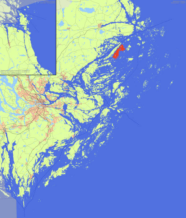 Location of the island Blidö